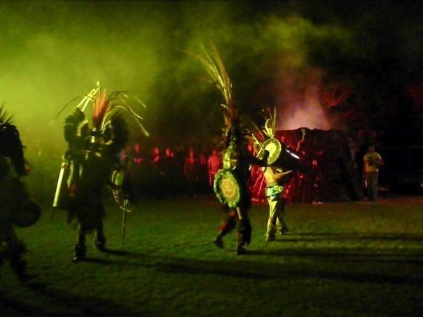 WorldMUN 2008 Aztec